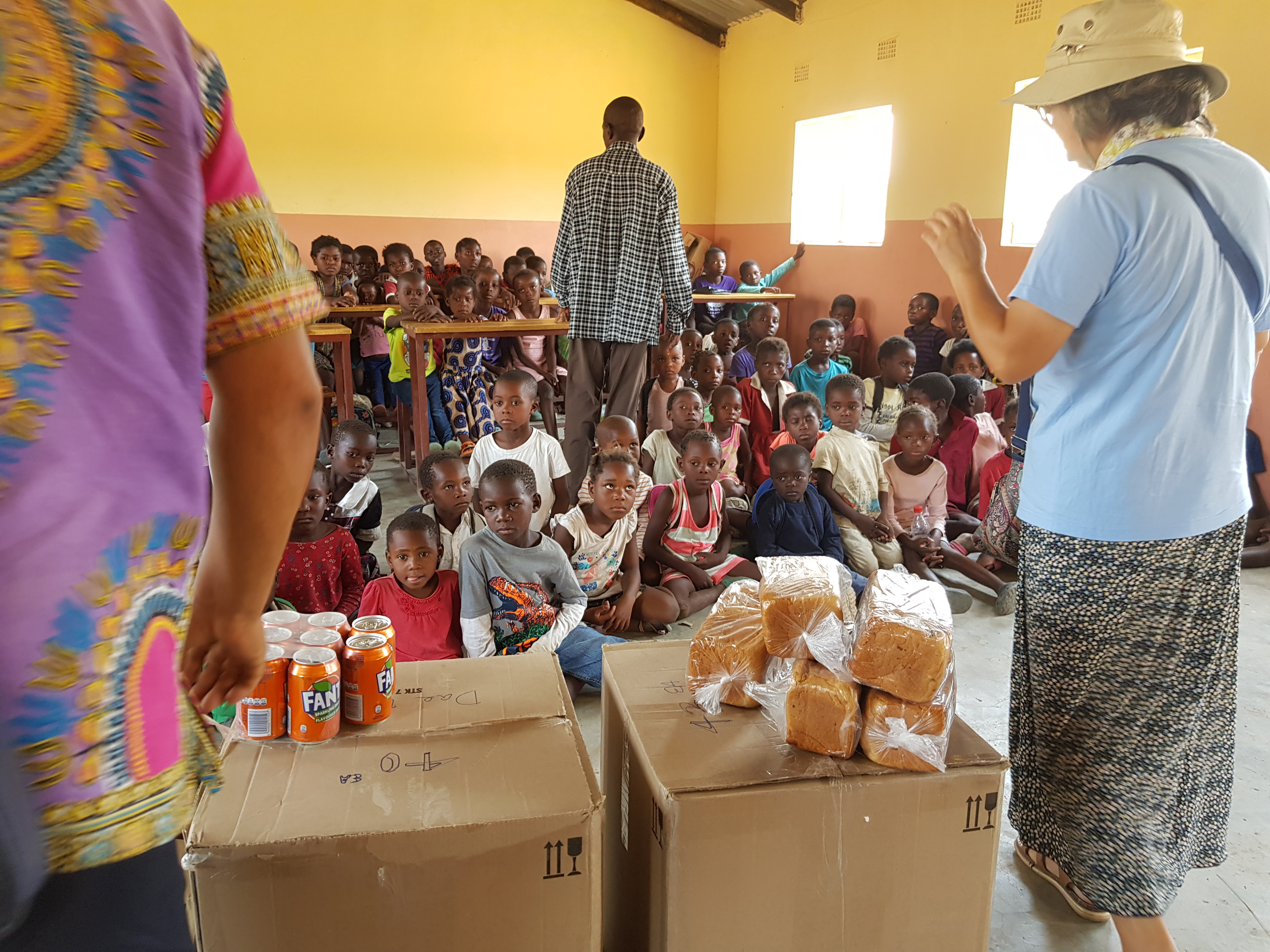 This is an image with the theme "Africa on the Move or Transport" from: Zambia